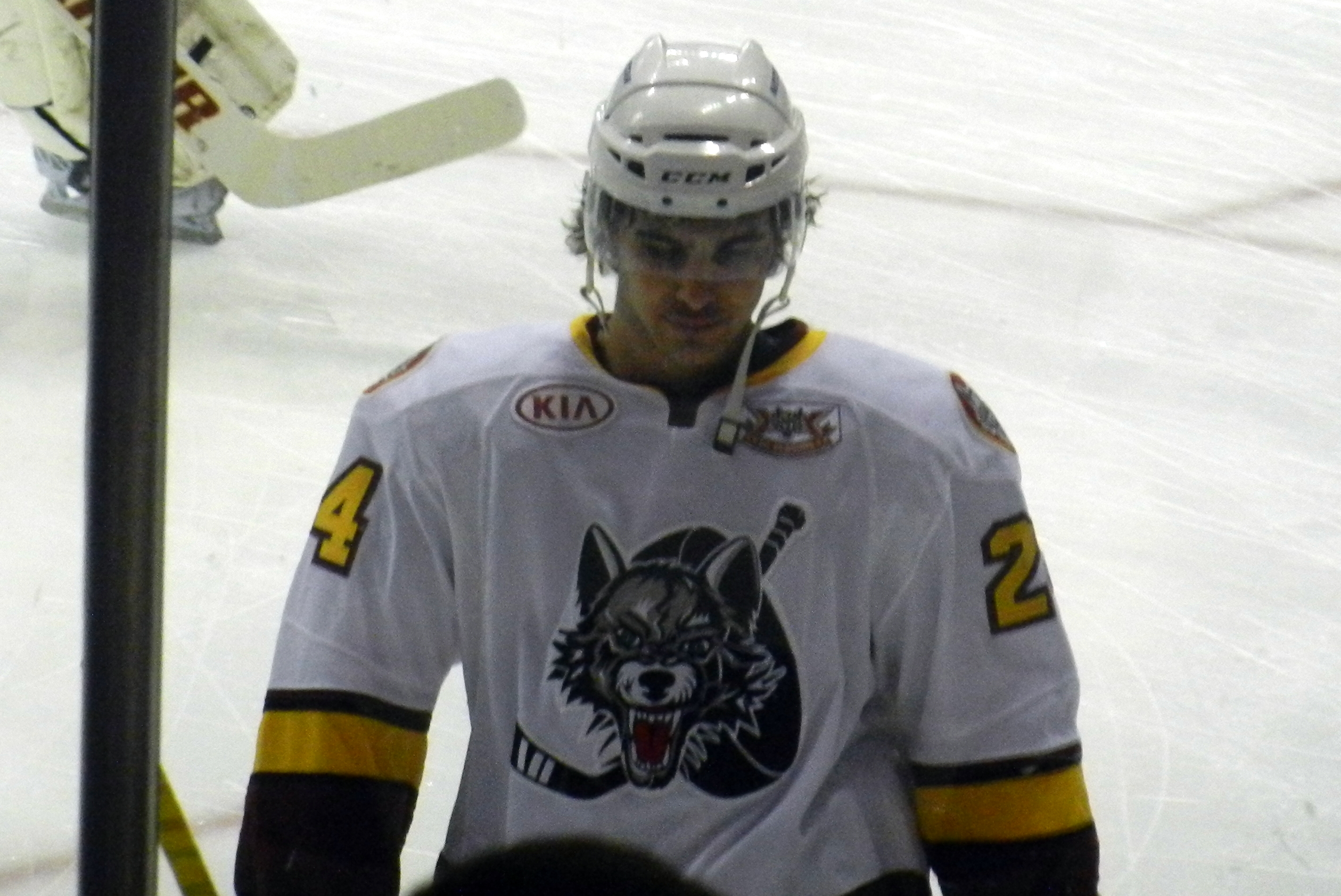 Jake Chelios with the Chicago Wolves during pregame warmup